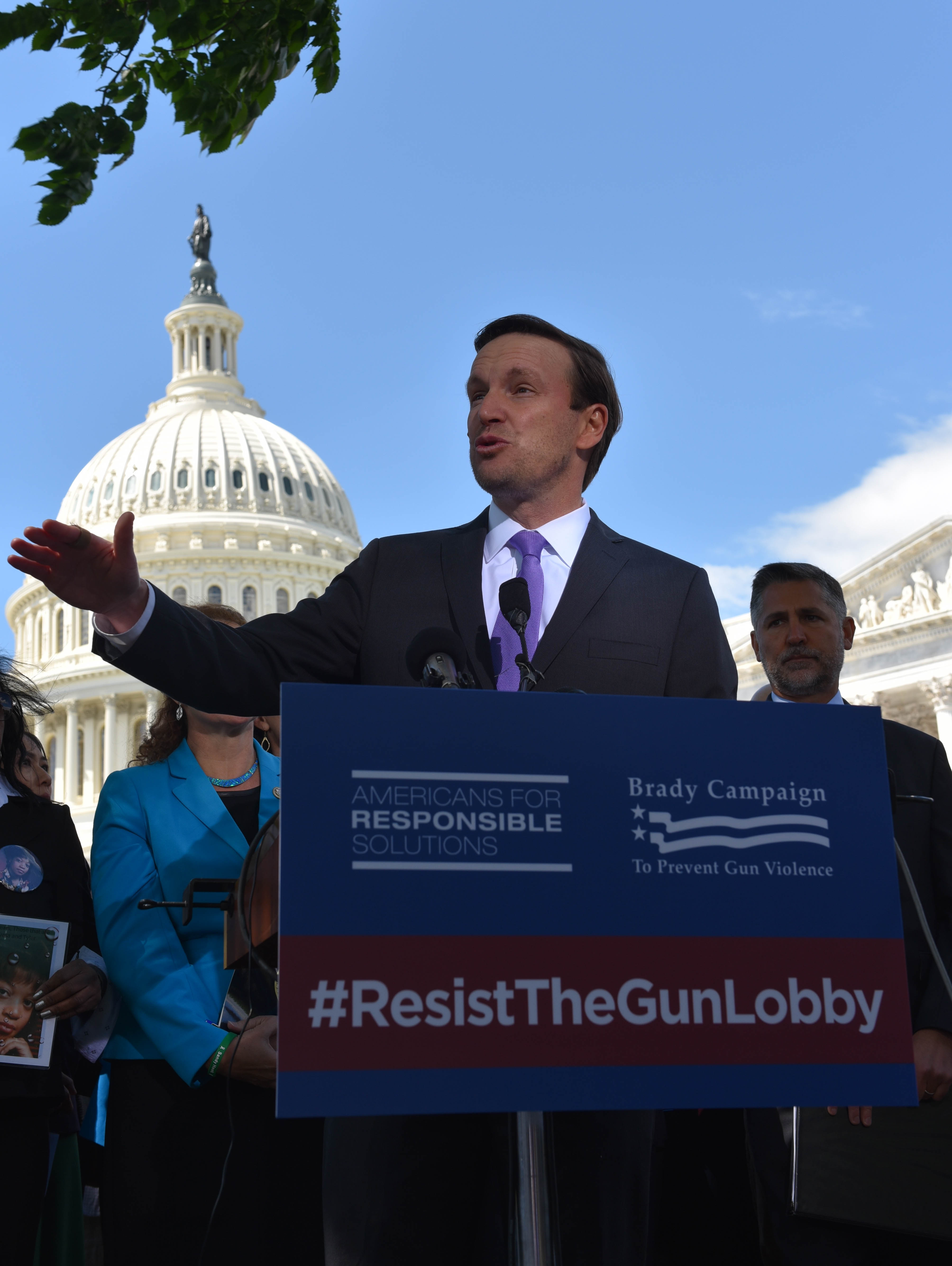 MC0_2292